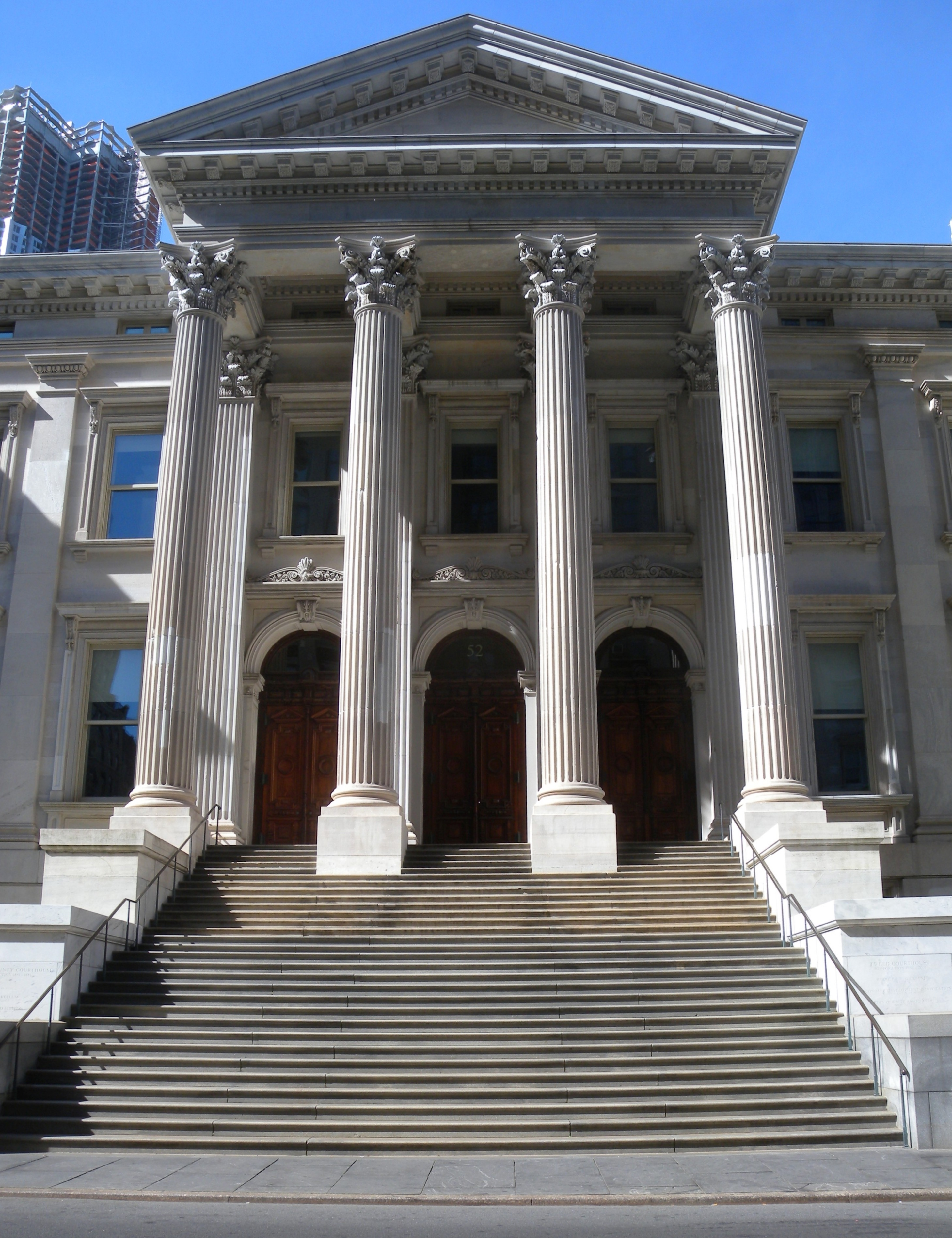 Looking south across Chambers at central portico on a sunny morning.